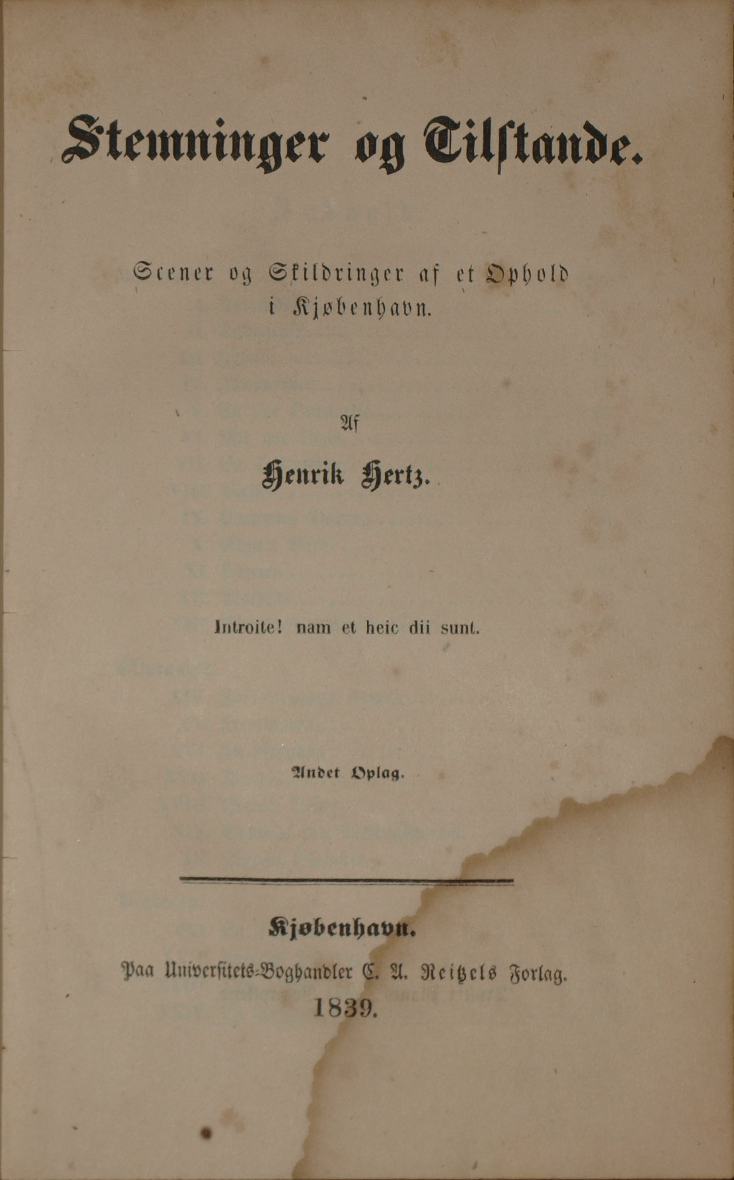 Stemninger og Tilstande af Henrik Hertz, 1839.